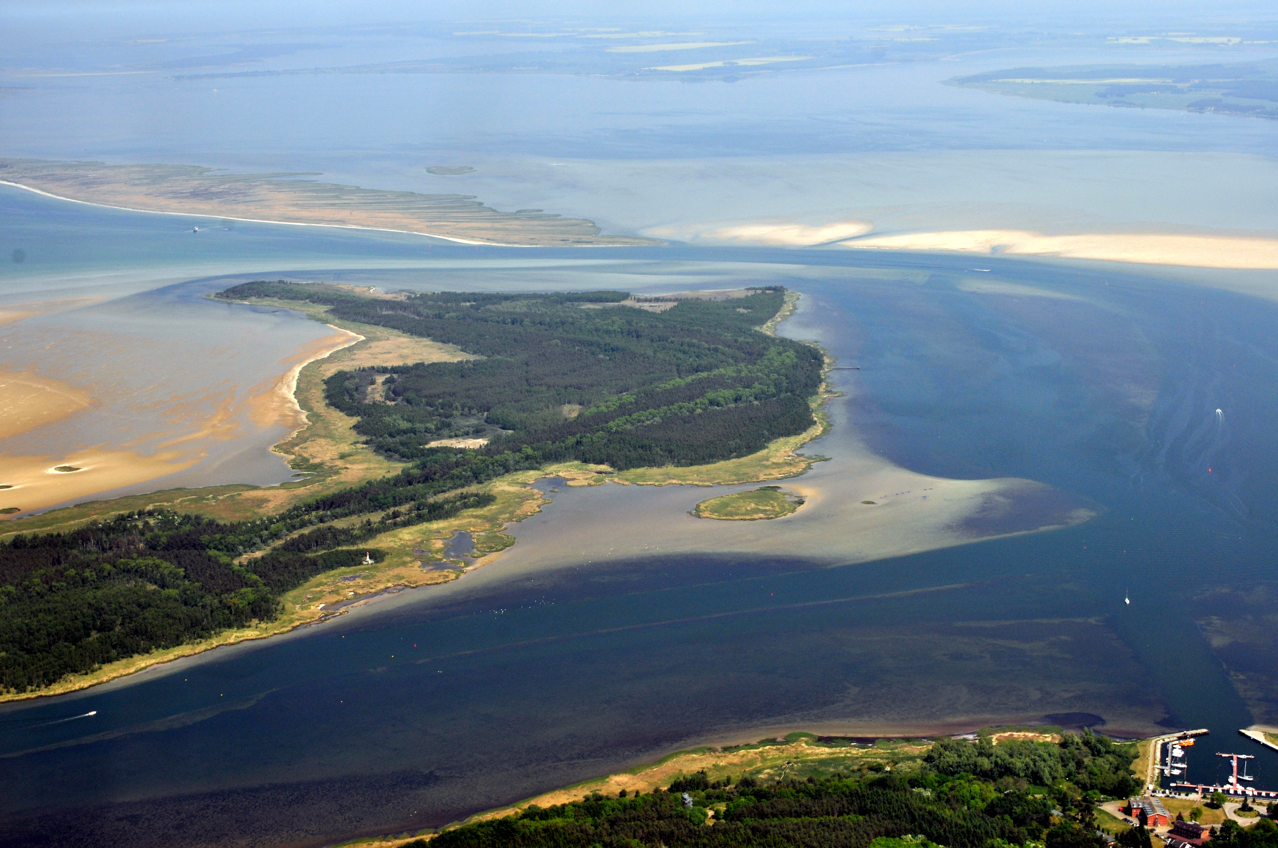 Aerial view of the lagoons around Barhöft near Stralsund, Germany. It is part of the Western Pomerania Lagoon Area National Park.